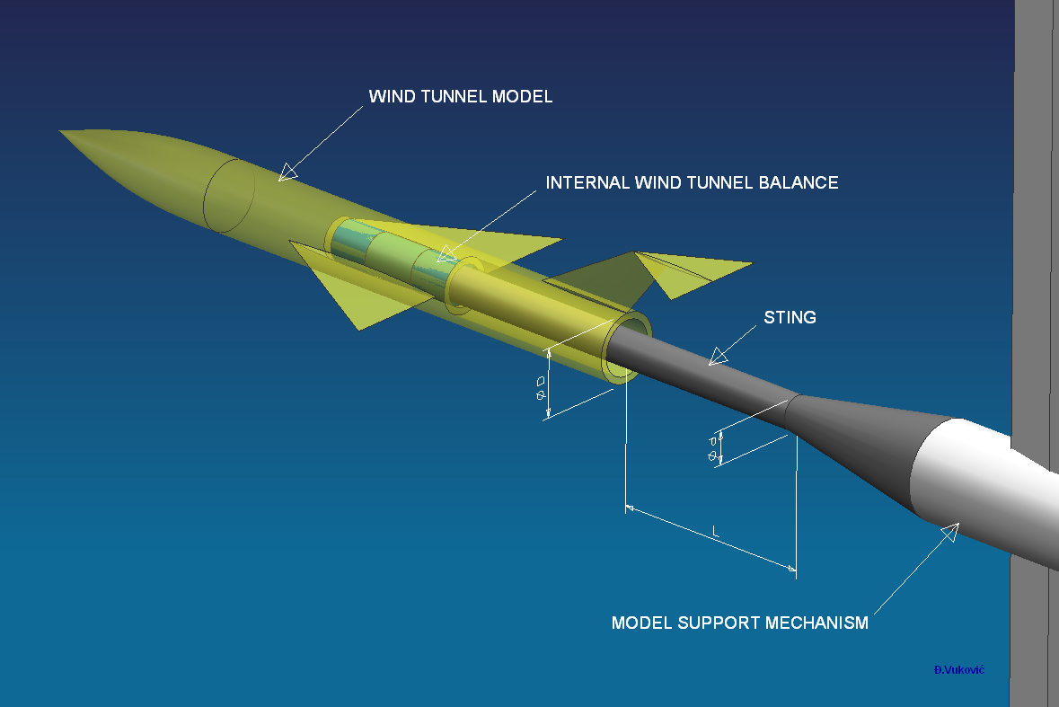 Explains the concept of a sting fixture for a wind tunnel model